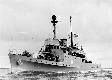 Dutch minesweper HNLMS Jan van Amstel (1937)